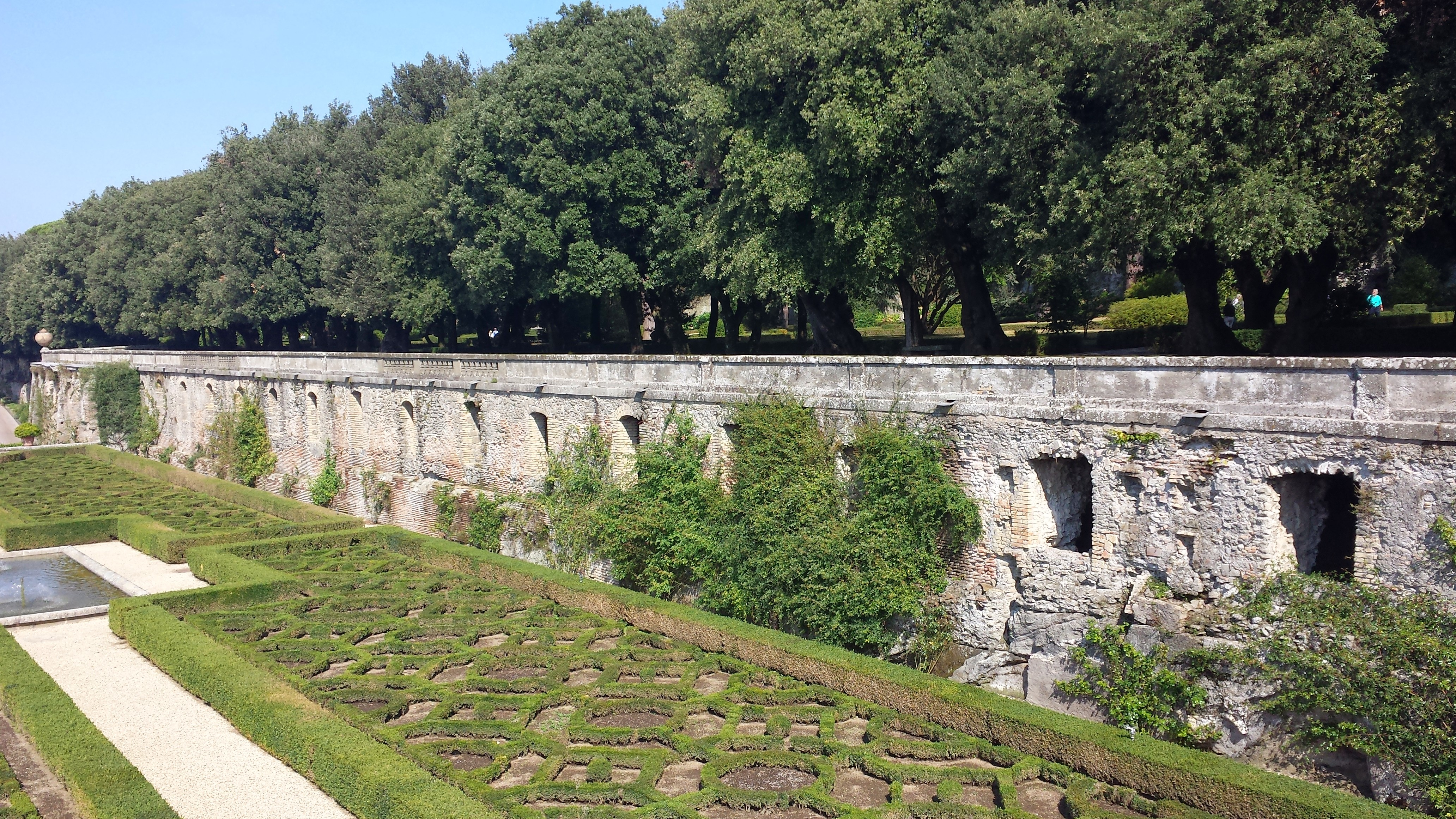 Outside view of the cryptoporticus of the Villa of Domitian in the gardens of the Papal summer residence of Castel Gandolfo. Seen from the Balconata del Bevedere.